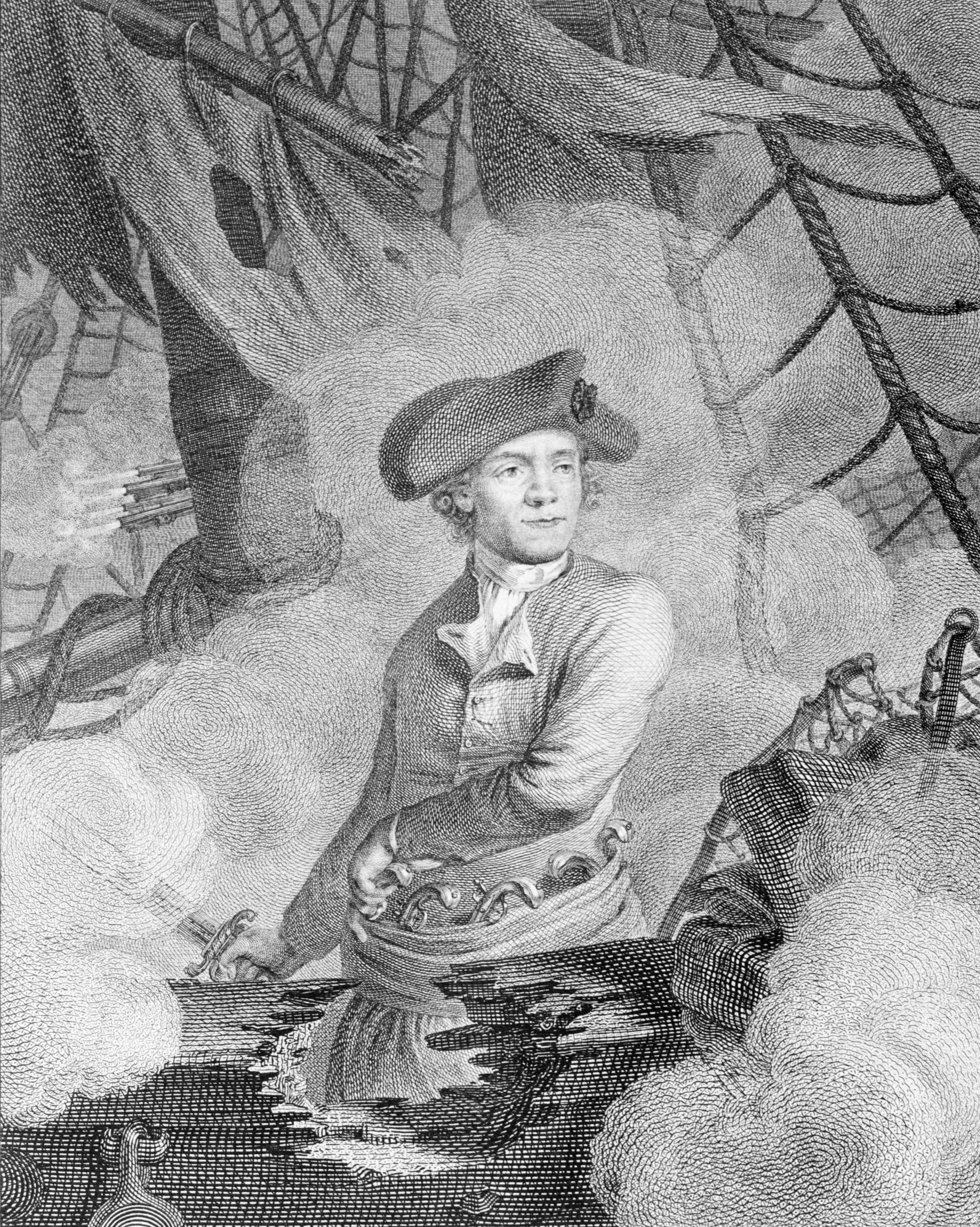 John Paul Jones, commodore au service des Etats-Unis de l'Amérique (commodore of the United States of America) 1 print : engraving. Print shows John Paul Jones, half-length portrait, facing slightly right, standing on board ship during battle, reaching with left hand for one of several pistols at his waist, right hand holds sword.